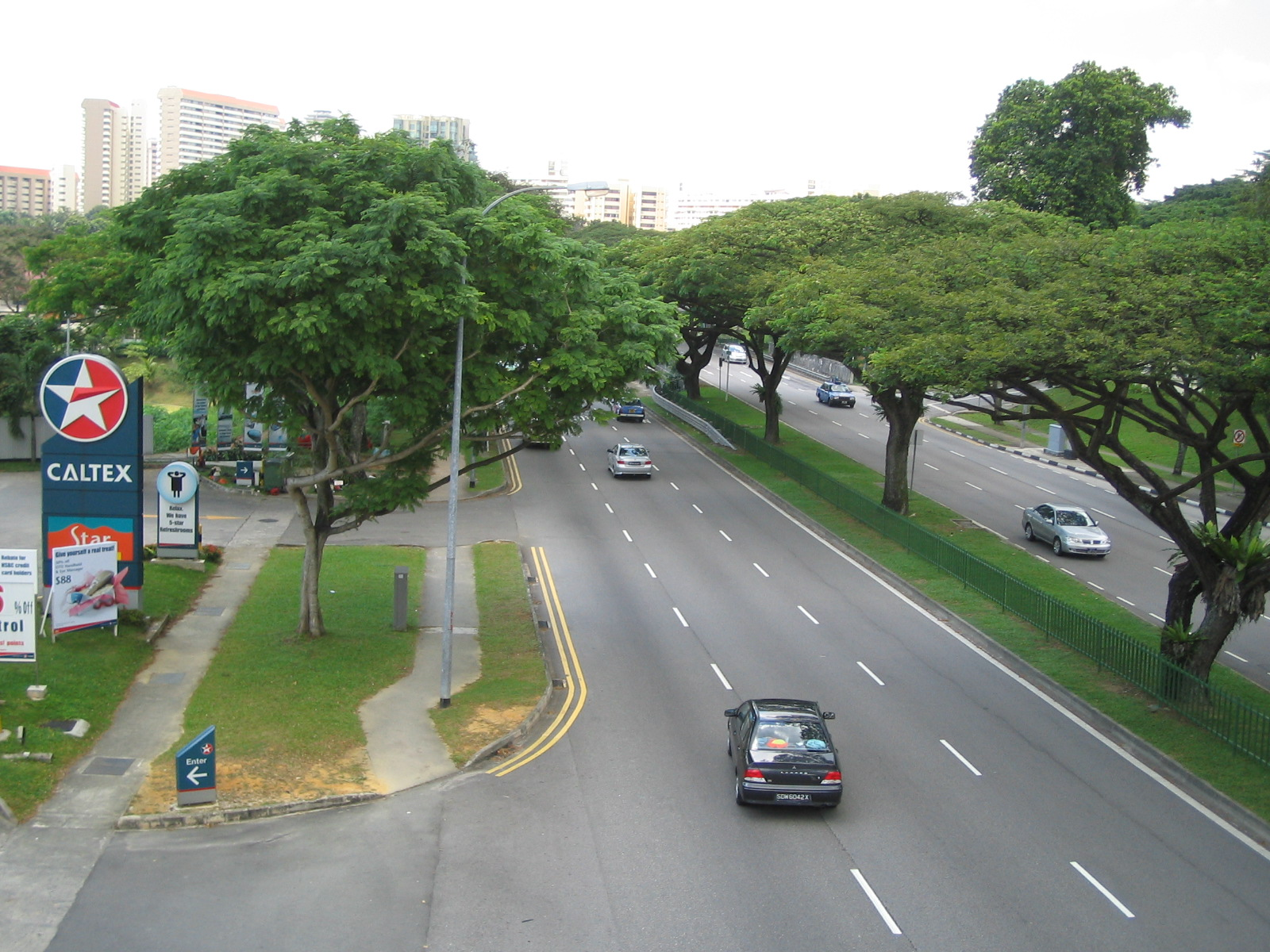 Holland Road, Singapore.